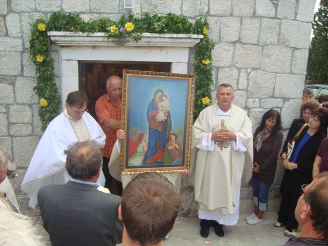 Celebration of Our Lady of Health on Bobovac 24th of September,Rastovac,Marina,Croatia